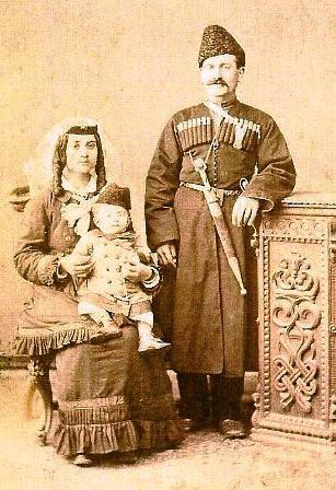 Georgian immigrant family in İstanbul. After from Russo-Turkish War (1877–1878)